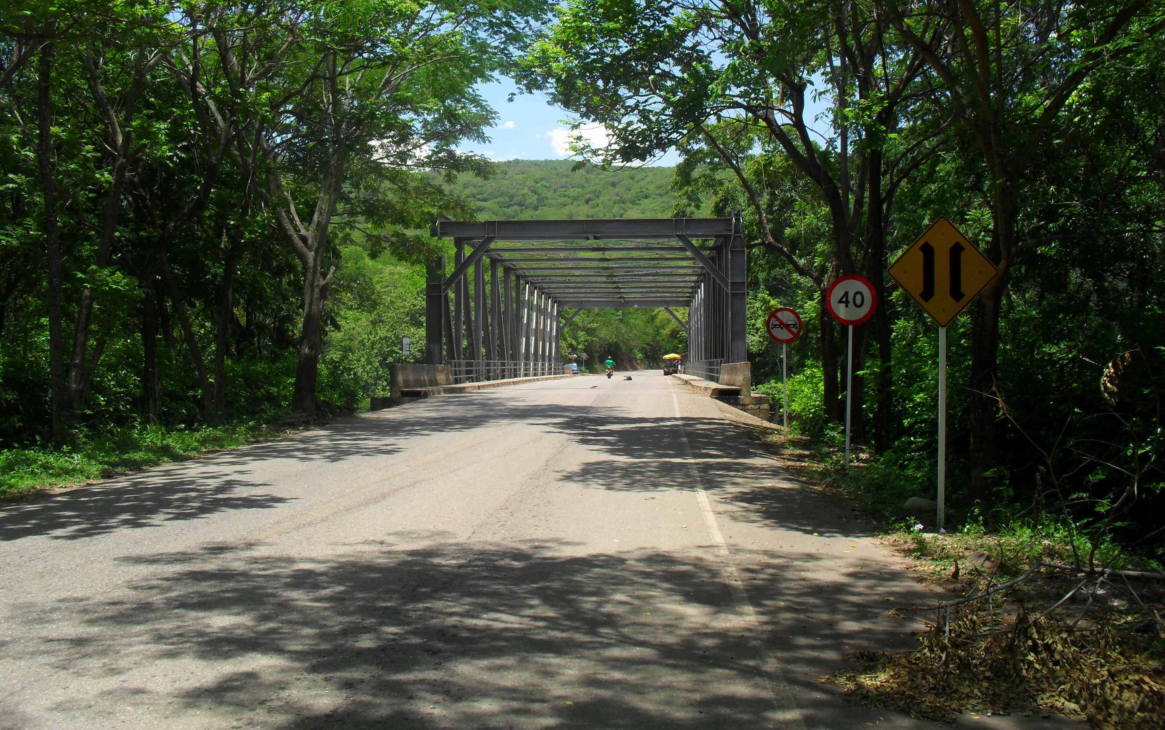 Bridge en Duranía NS,Colombia